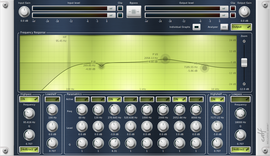 Calf EQ